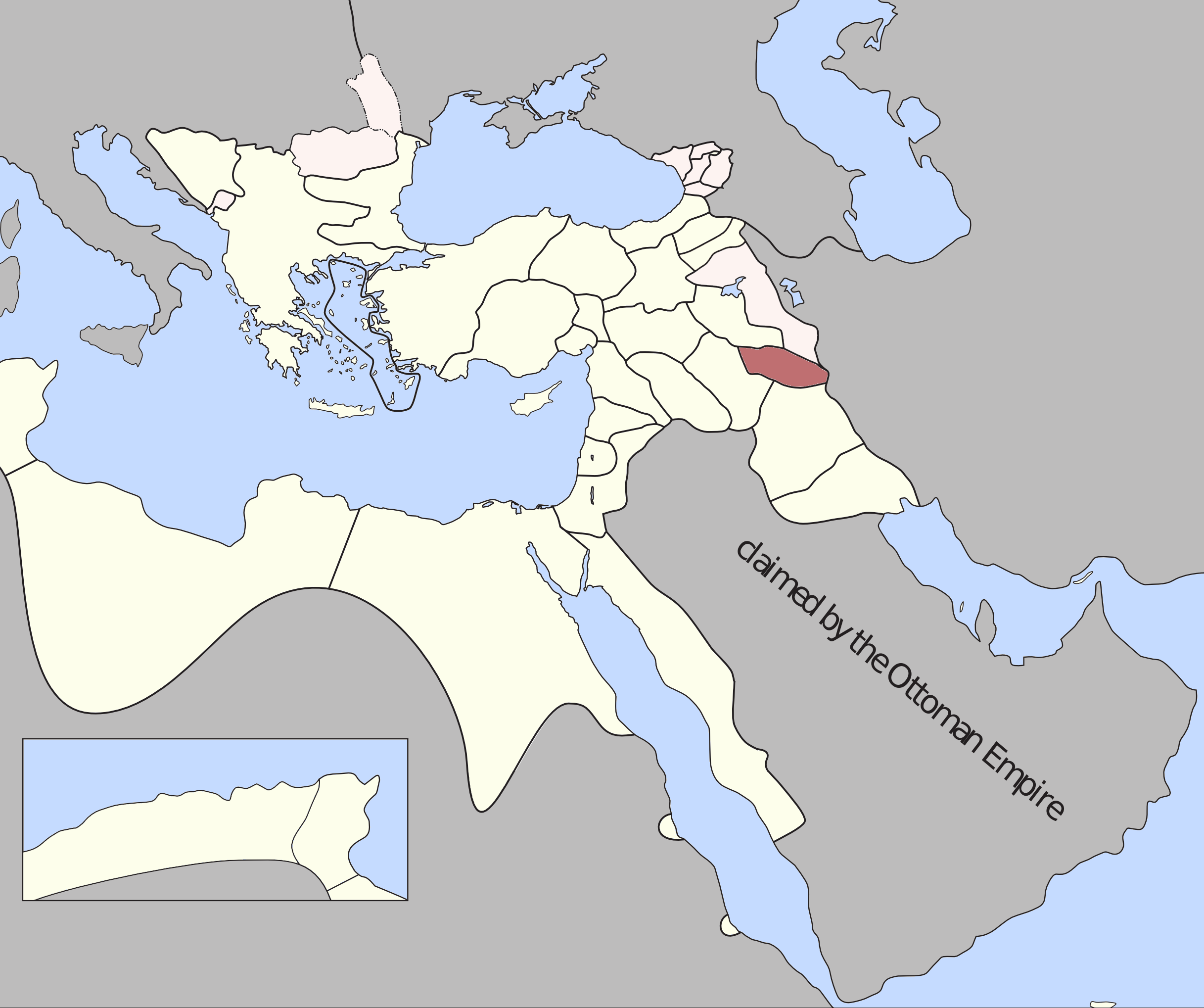 Sharazor Eyalet, Ottoman Empire (1795). Source: A Brief History of the Late Ottoman Empire at Google Books By M. Sukru Hanioglu, Figure 1